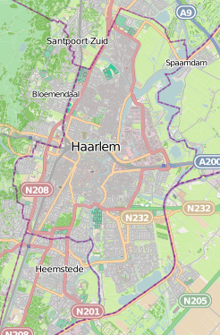 Map of Haarlem, Netherland This map of Haarlem was created from OpenStreetMap project data, collected by the community. This map may be incomplete, and may contain errors. Don't rely solely on it for navigation.